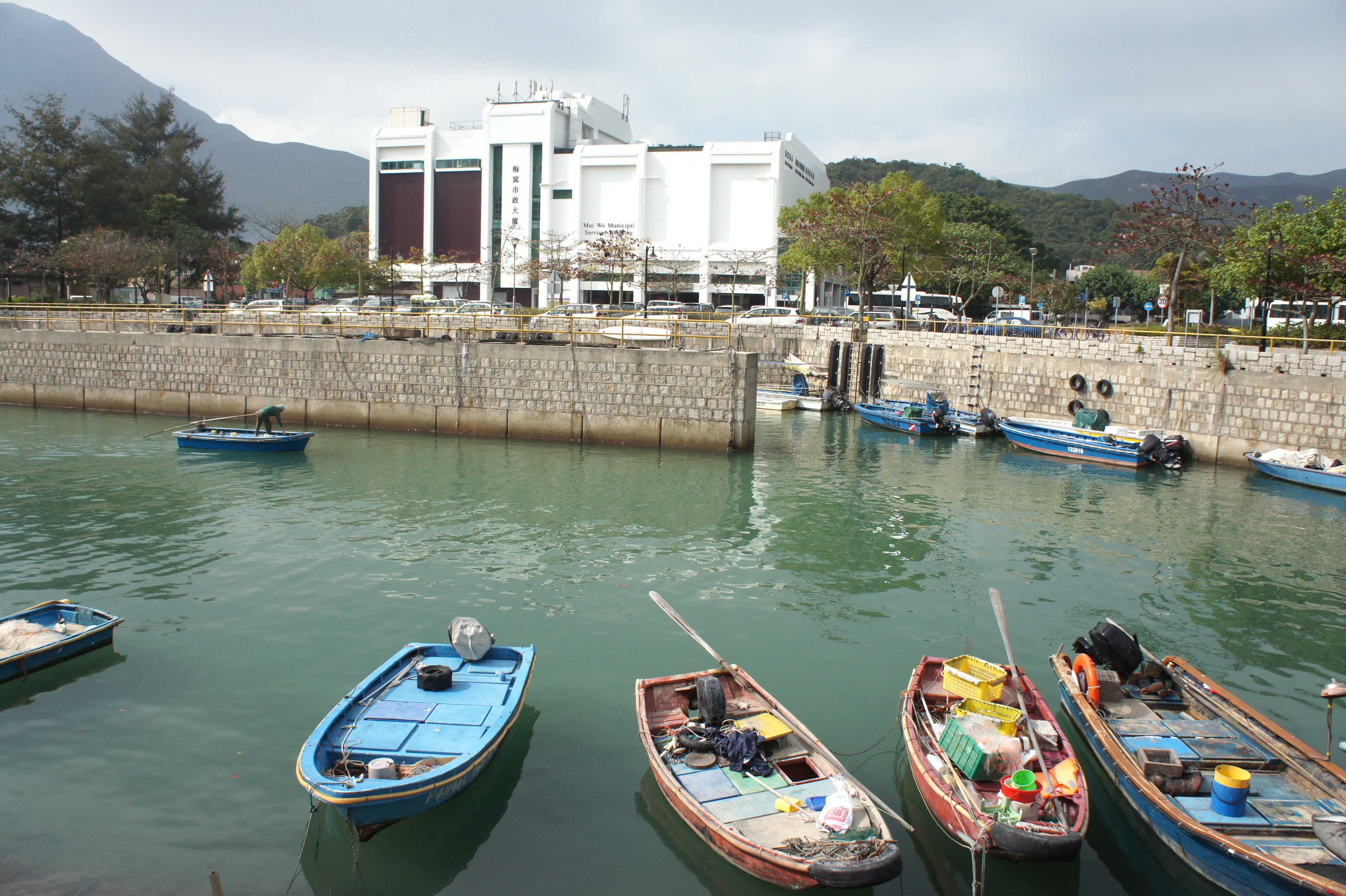 Sliver River, Mui Wo, Lantau Island, Hong Kong.